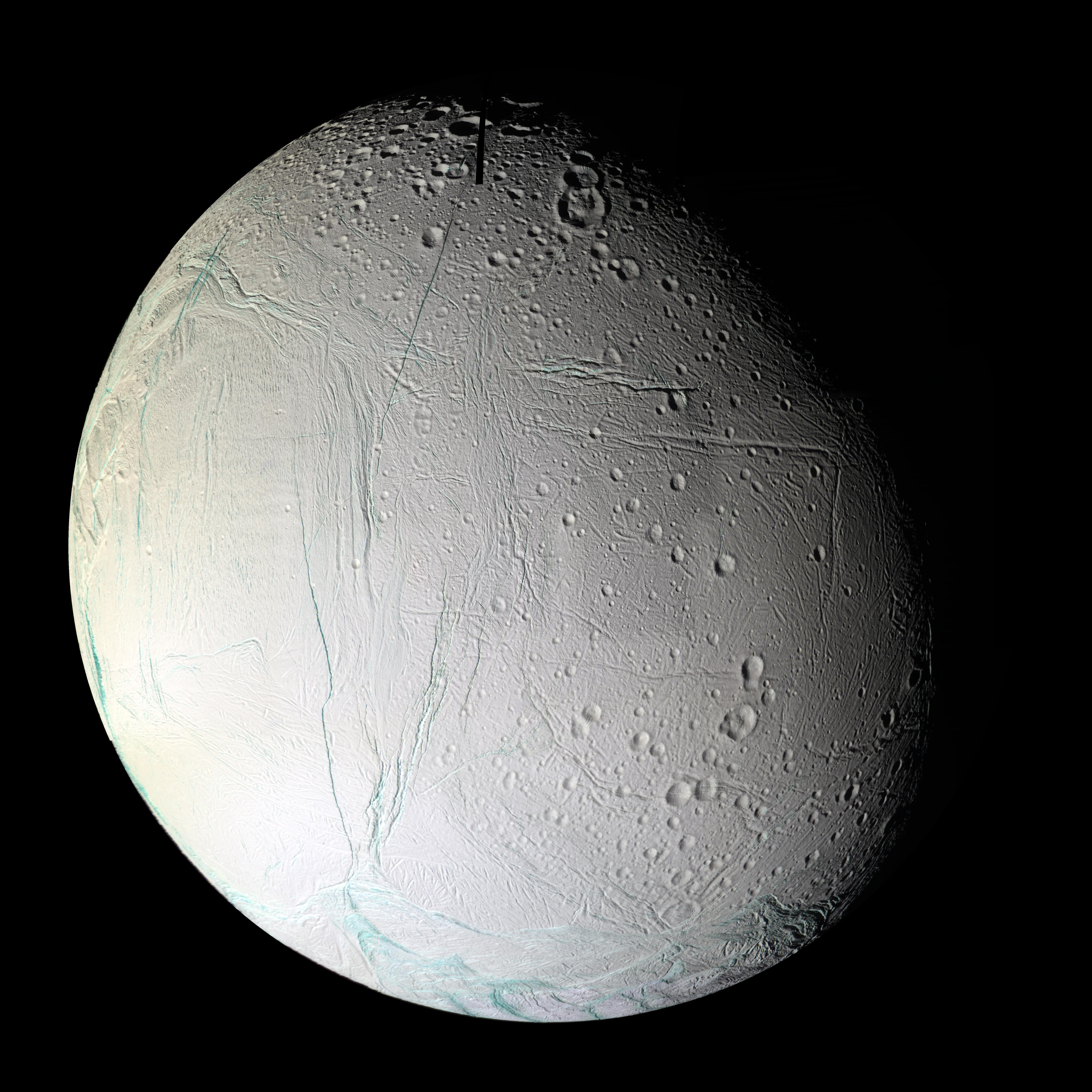 Combined picture of the Saturn moon Enceladus, taken on March 9, 2005 by NASA's Cassini orbiter, which is part of the U.S./European spacecraft Cassini–Huygens.